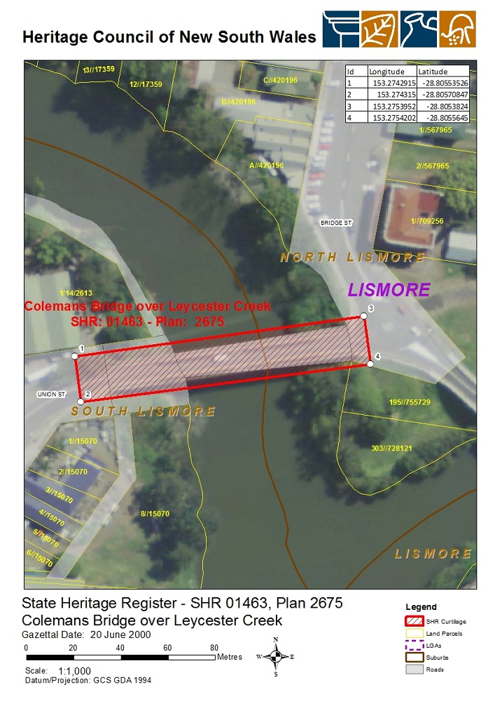 Colemans Bridge over Leycester Creek: SHR Plan No 2675